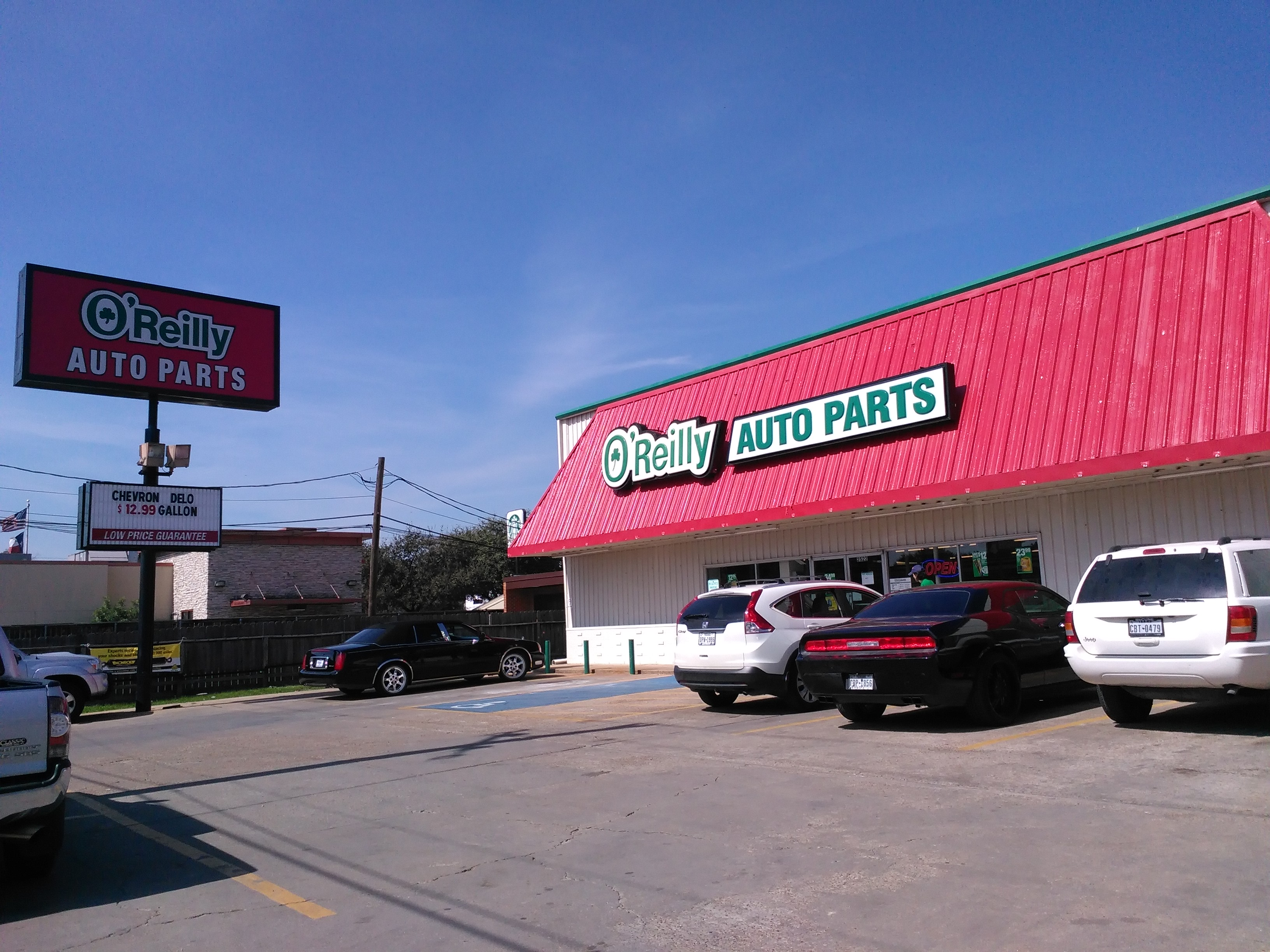 O'Reilly Auto Parts store - 2522 Tangley, Houston, TX 77005